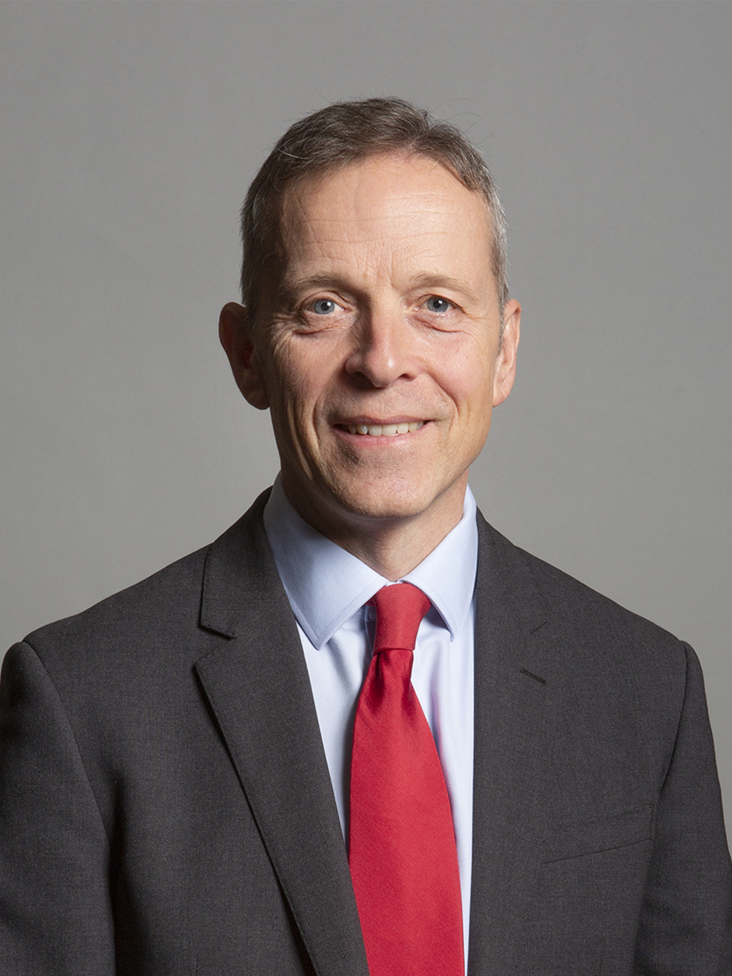 Official portrait of Matt Rodda MP 3×4 portrait of Matt Rodda